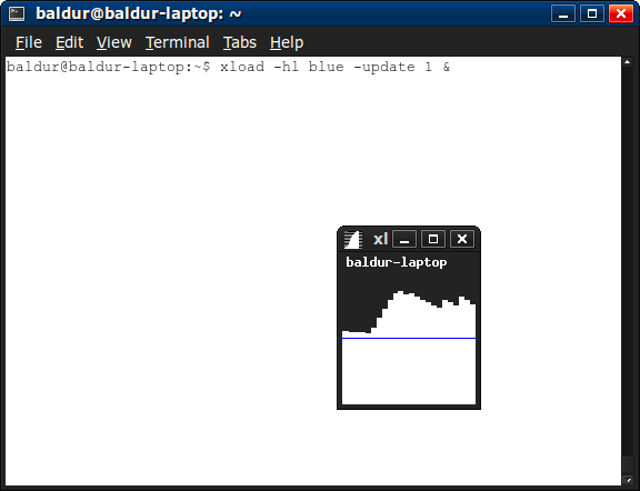 The program xload and the GNOME terminal.